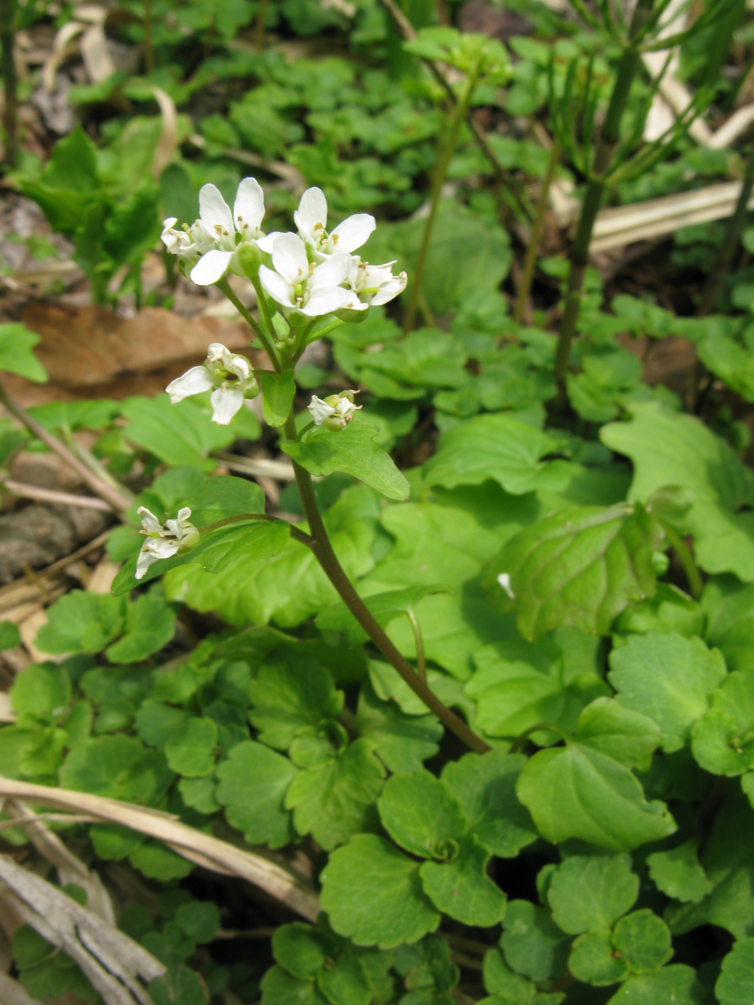 Eutrema okinosimense, Aizu area, Fukushima pref., Japan